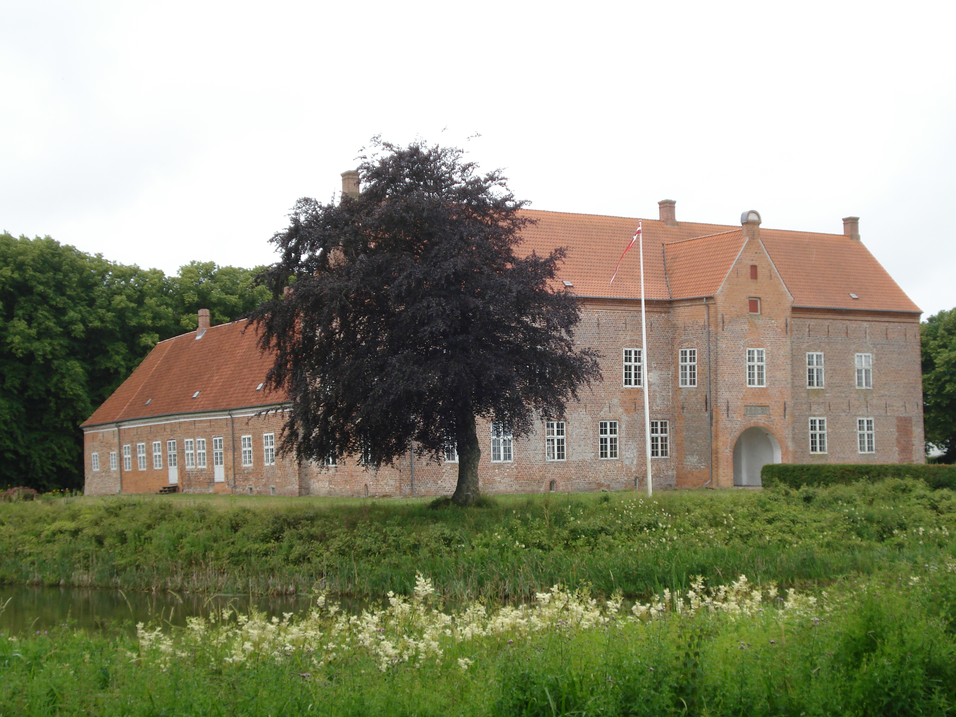 Sæbygaard manorhouse, Jutland, Denmark